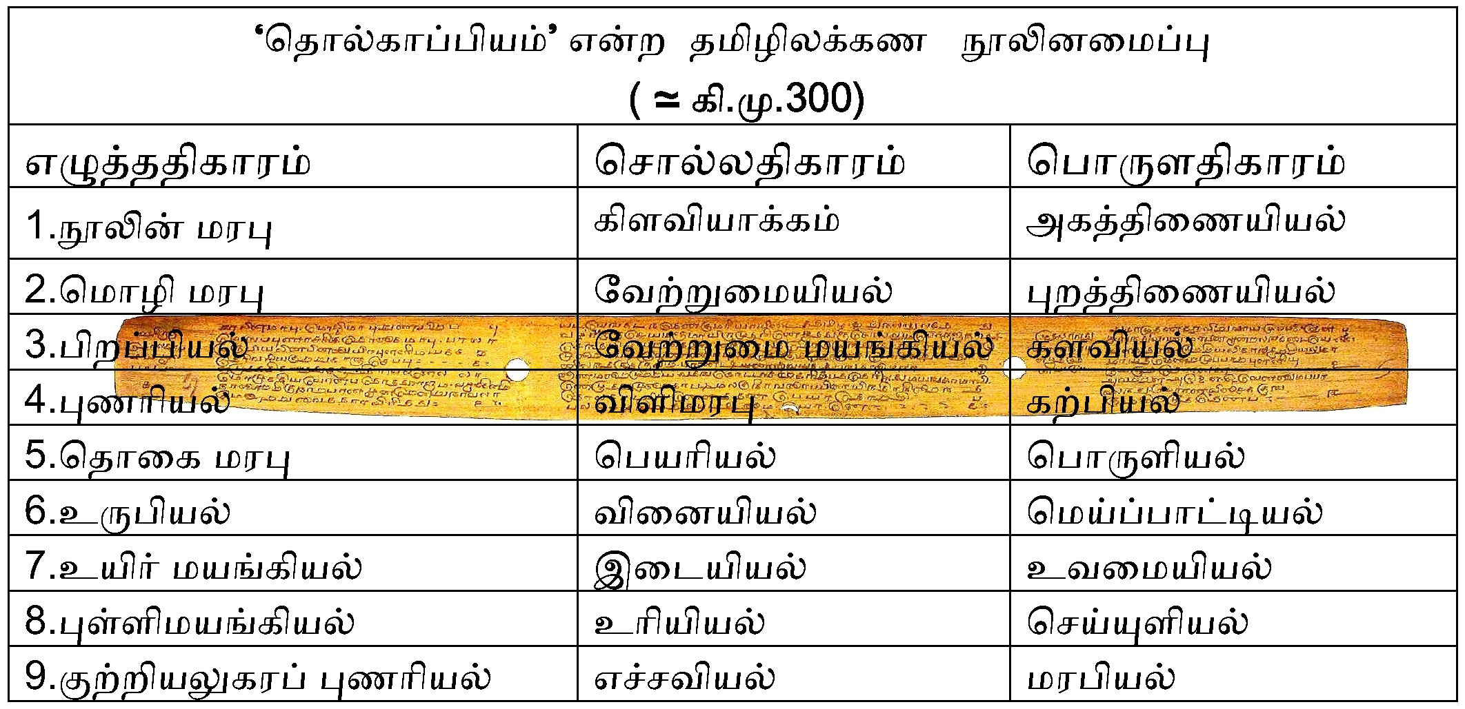 The original palmleaf manuscript of 'Thol.kaa.p.pi.am'(~500.B.C.). is added as the background. The table describes the structure of the ancient Tamil grammer. The grammatical infos still values. The original sources are available in the two sections of the web site(public domain). 1.Lessons- the table,2.Library -the palm leaf.